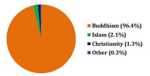 Pie chart of the religious groups in Cambodia